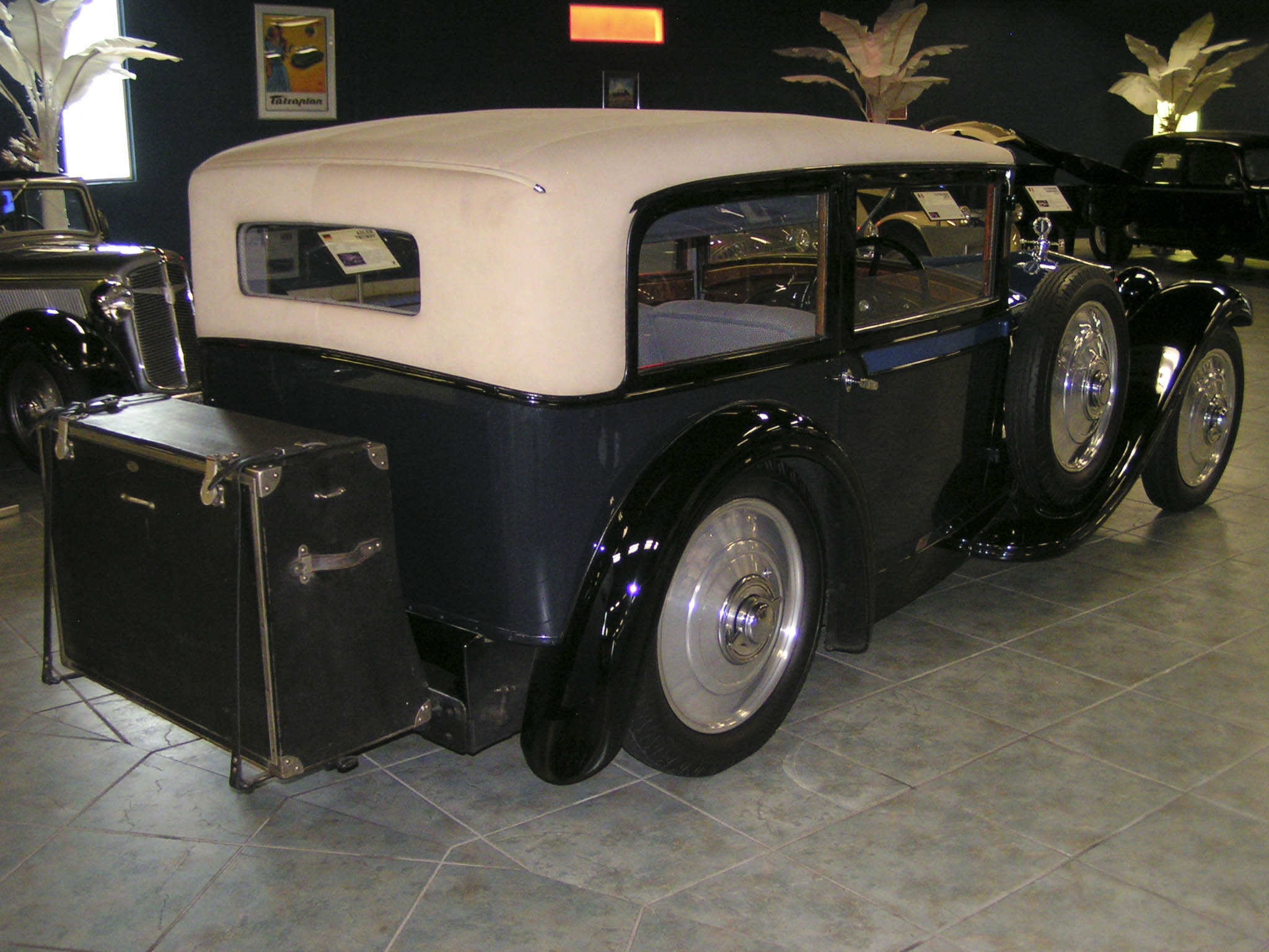 Continental 65hp 2.7L side valve six cylinder engine power with a front wheel drive three speed gearbox. This Tracta Type E was produced in France in 1930. The body is by Lemoine.